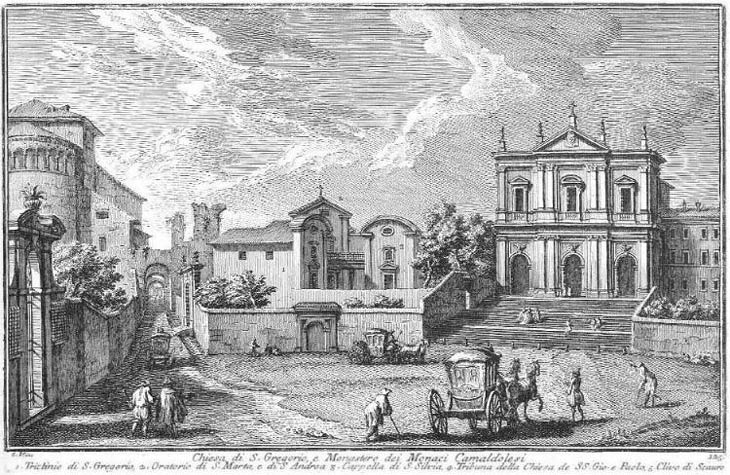 1) Triclinio di S. Gregorio (aka S. Barbara); 2) SS. Marta e Andrea (best known as S. Andrea); 3) S. Silvia; 4) Tribuna (apse) di SS. Giovanni e Paolo; 5) Clivo di Scauro.